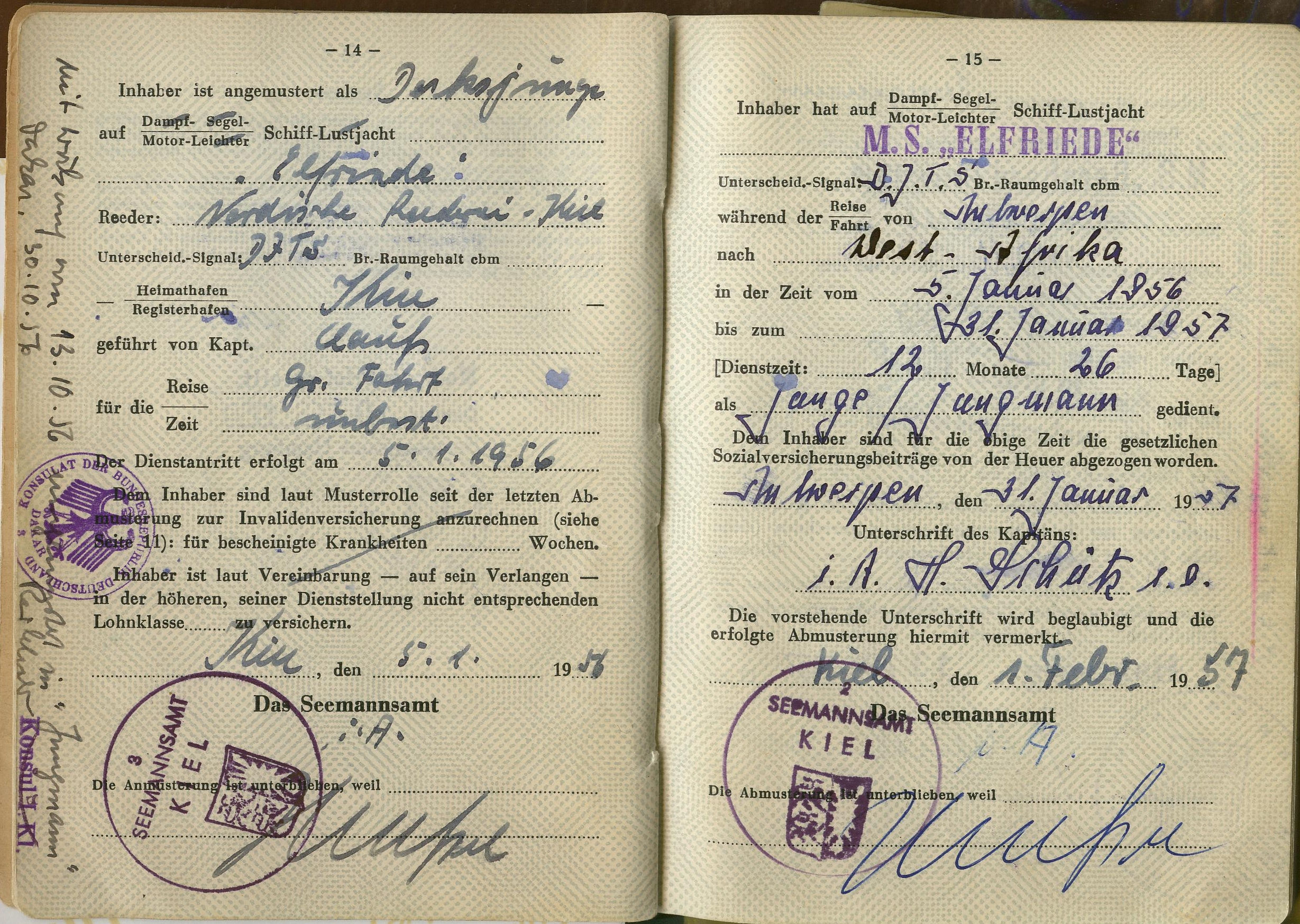 Extract from my seamans record book